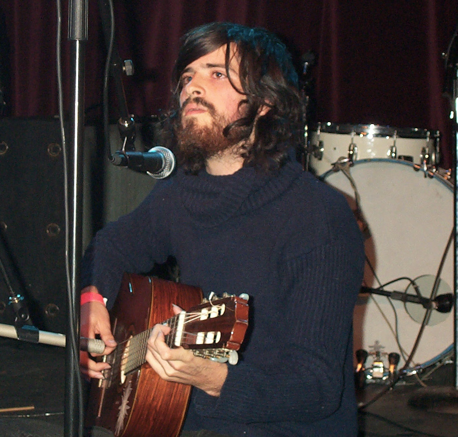 Devendra Banhart Minneapolis in October 2003